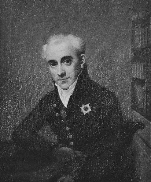 Ioannis Kapodistrias